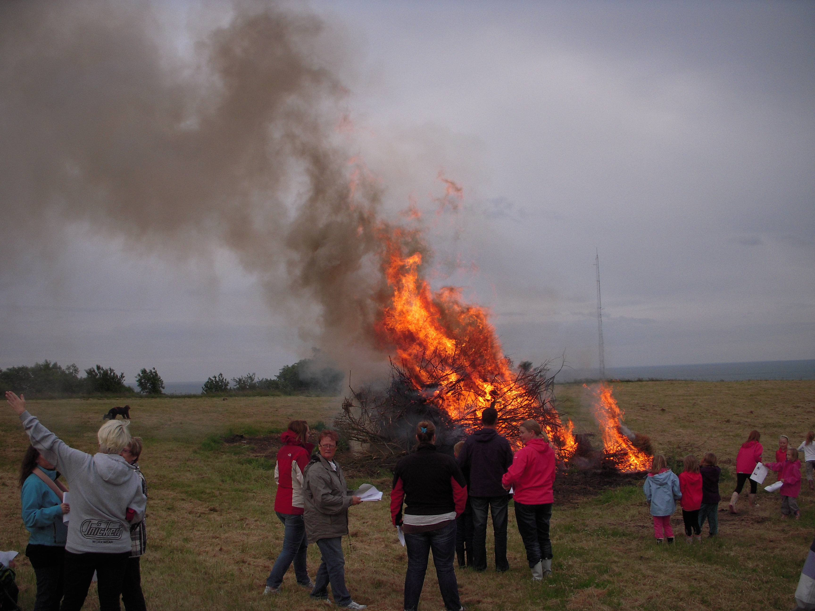 Midsummer bonfire in Haldbjerg near Frederikshavn, Denmark. June 23, 2012